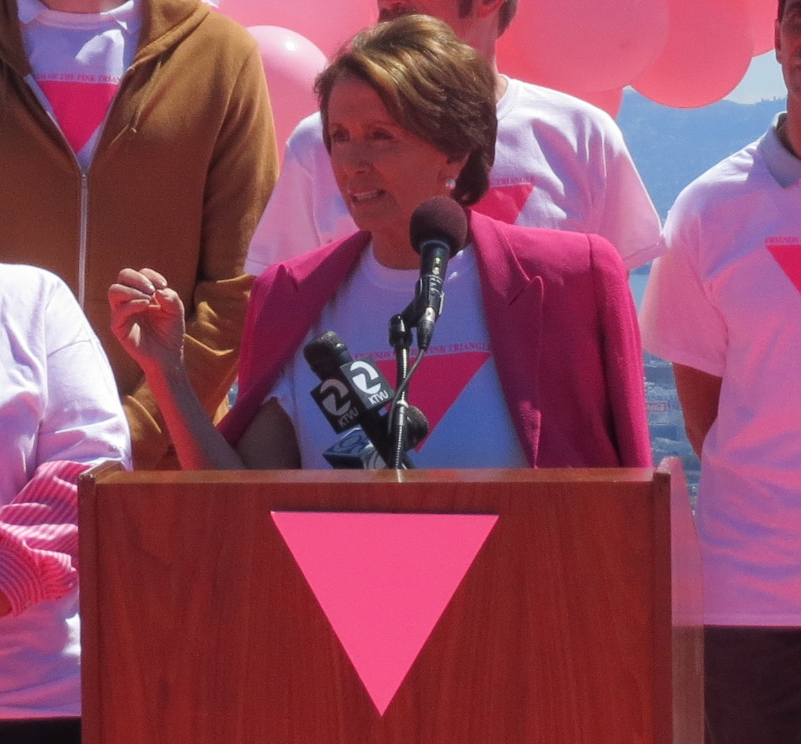 Congresswoman Pelosi commemorates the LGBT victims of the Holocaust at the “Friends of the Pink Triangle” ceremony at the Twin Peaks Vista Overlook.